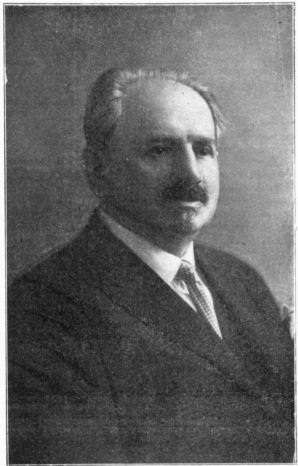 Adam Wizel, Polish psychiatrist